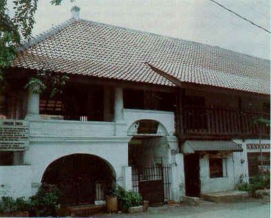 The Langgartinggi Mosque in Pekojan, Jakarta, Indonesia.